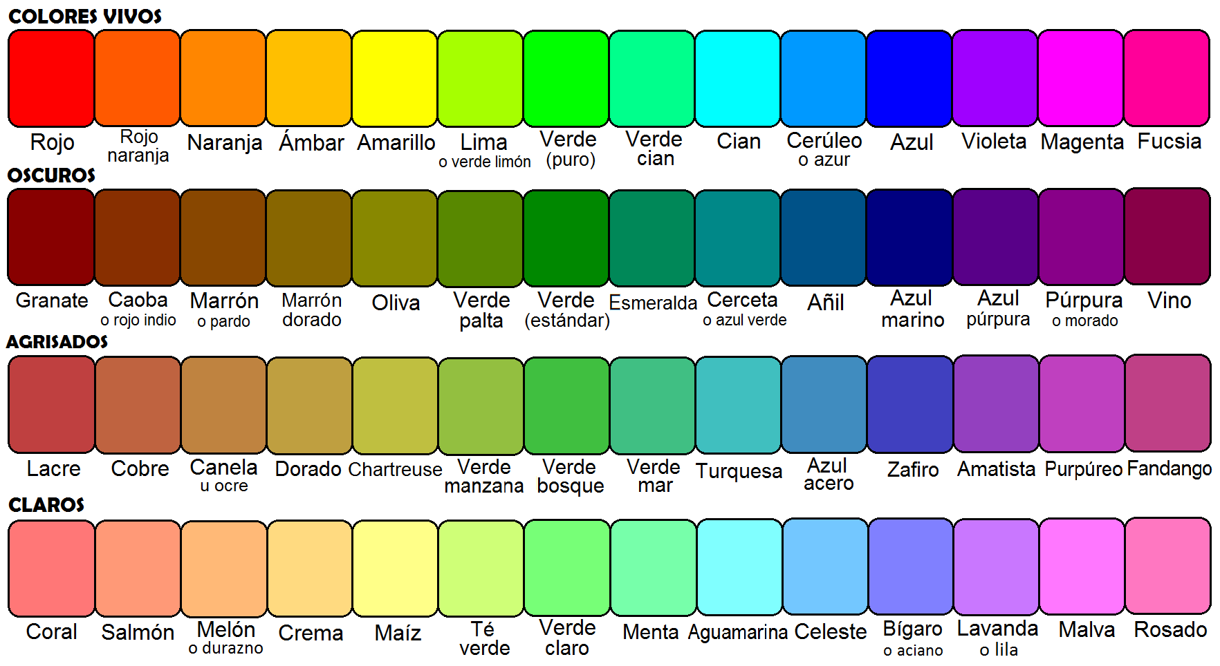 Color wheel and derivative colors